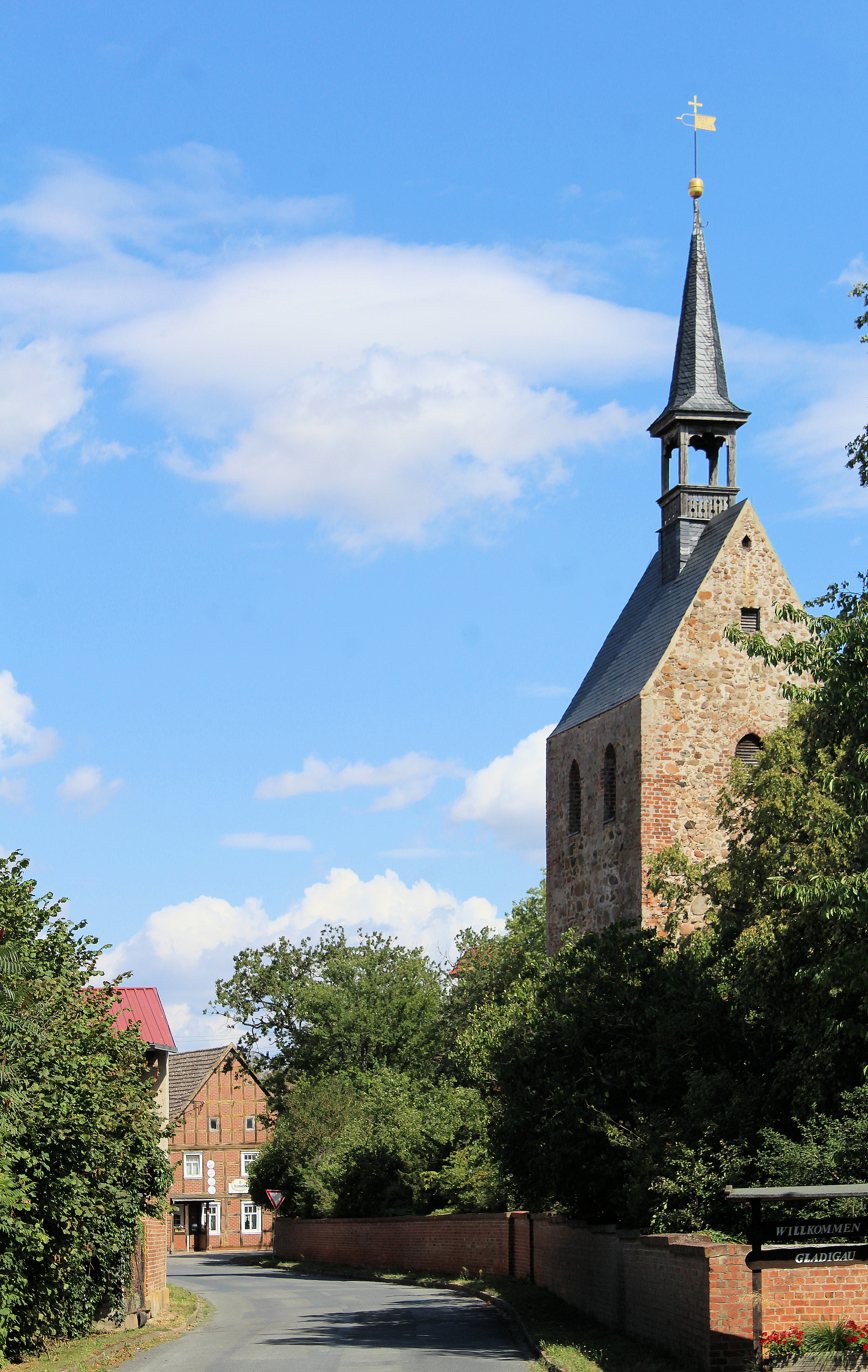 Gladigau (Osterburg), the tower of the village